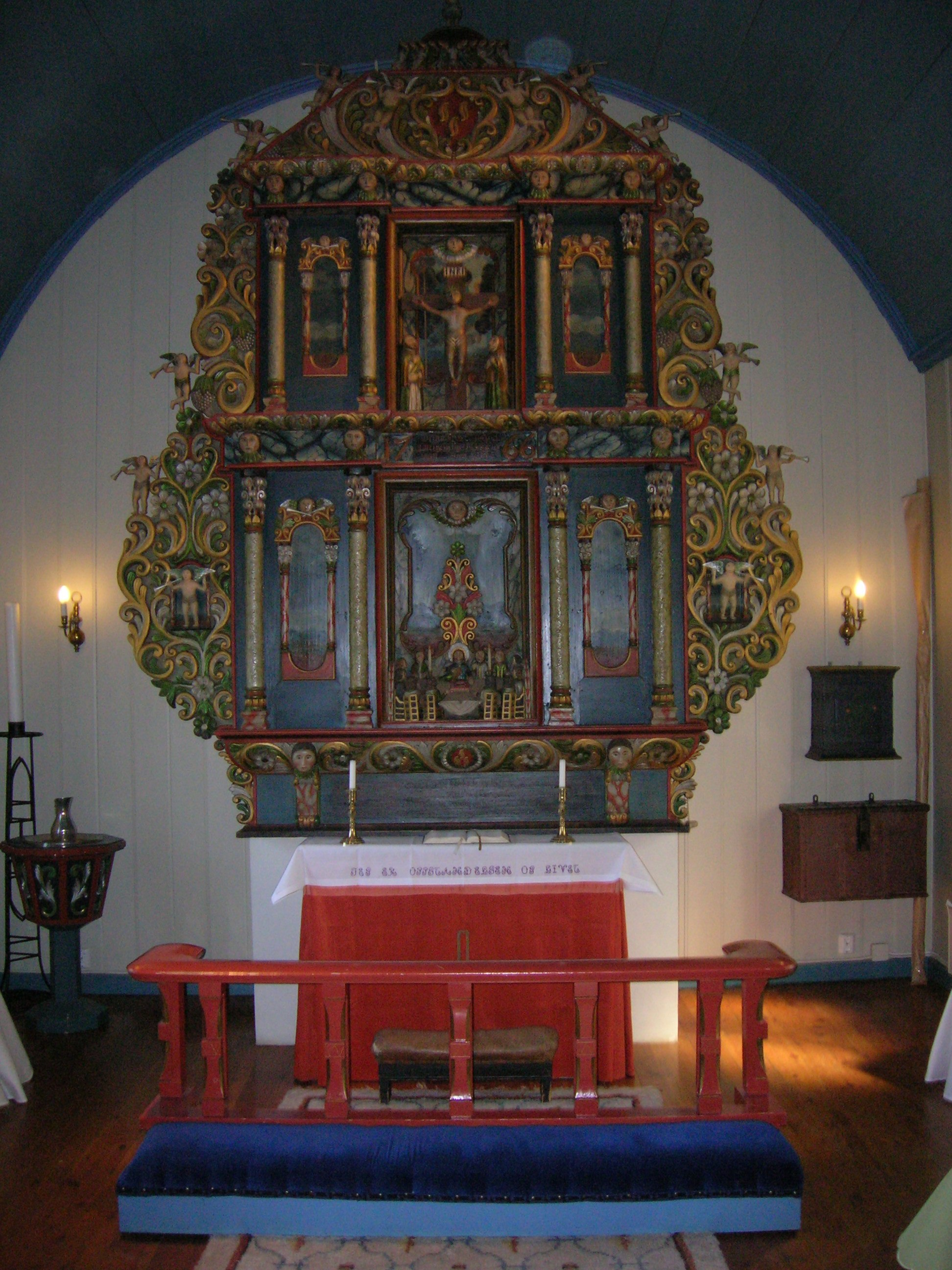 The altarpiece from 1765 in Mo church, Mo i Rana, Rana municipality, Norway. Photo on June 4, 2008 with a Nikon Coolpix 5600 5,1 Megapixel camera.